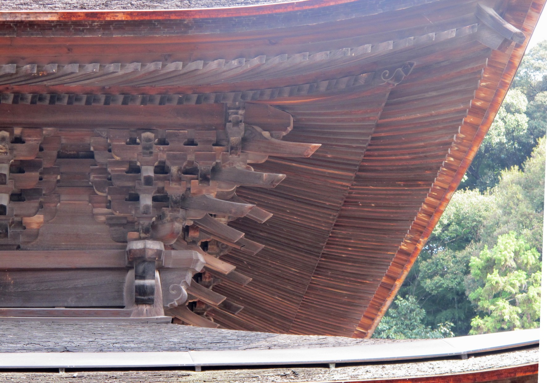 Fudôin Hiroshima Kondô roof